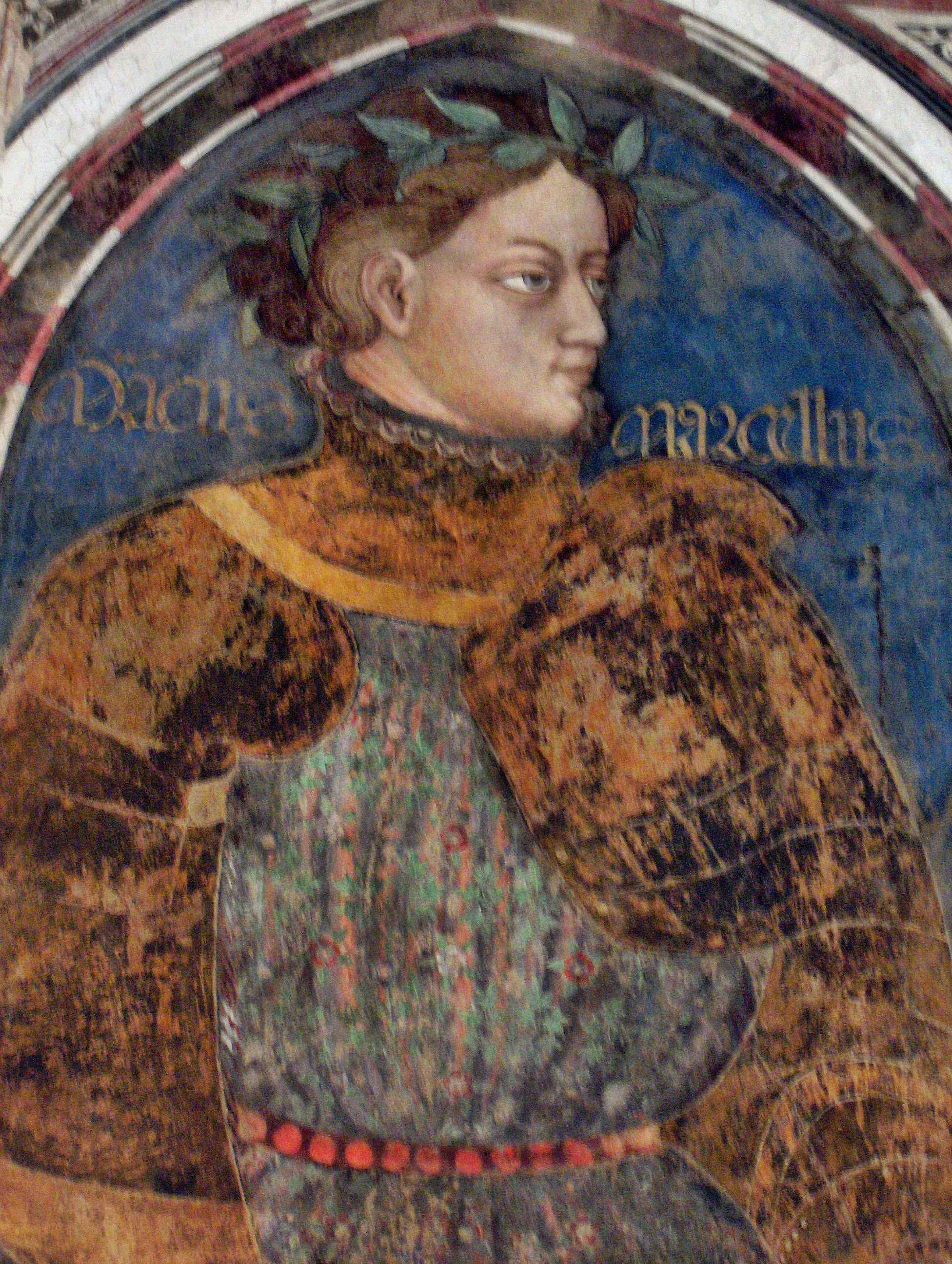 "Marcus Claudius Marcellus", fresco in the Giants Room, Trinci Palace, Foligno, Italy